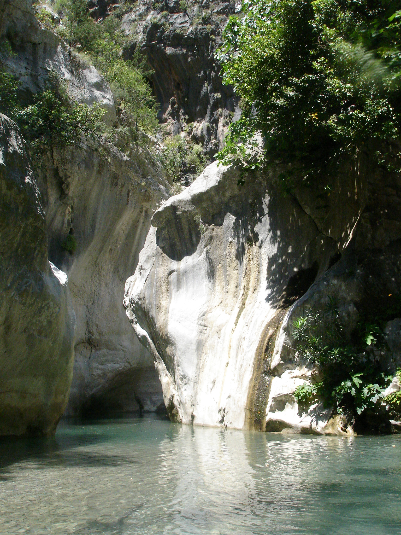 Köprülü Canyon (Serik, Antalya)